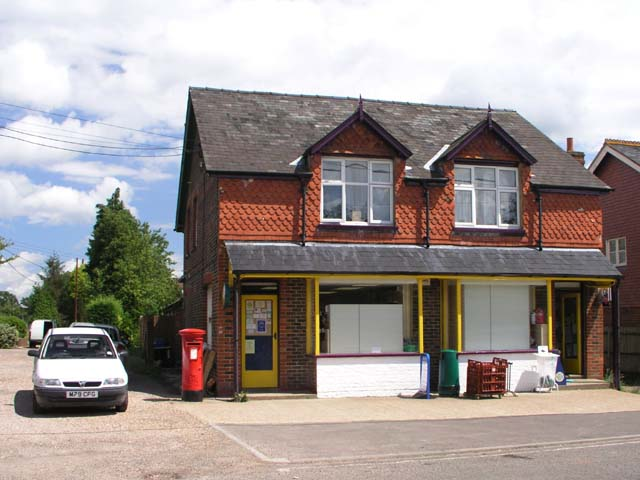 Post Office and village shop, Newdigate Formerly two shops now knocked into one.